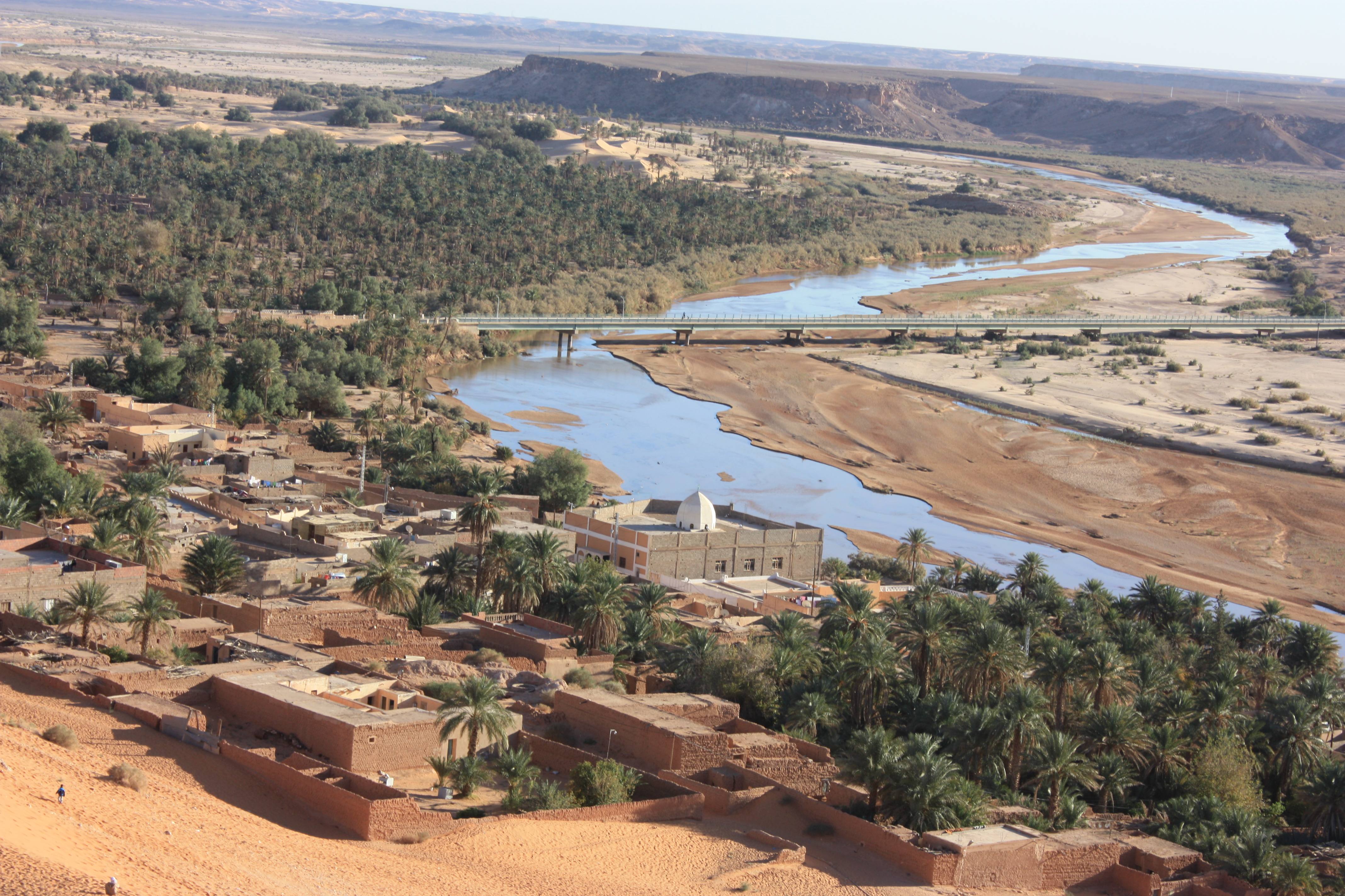 Landscape for Béni-Abbés and Oued saoura